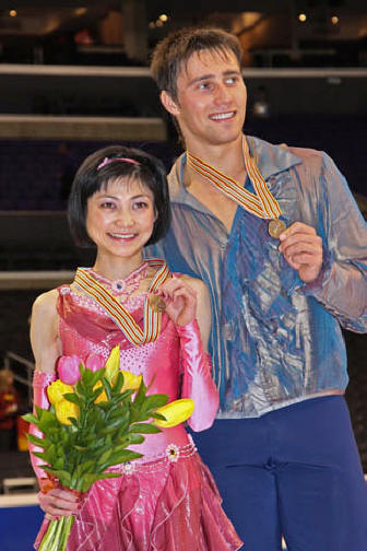 2009 World Figure Skating Championships - Yuko Kawaguchi and Alexander Smirnov